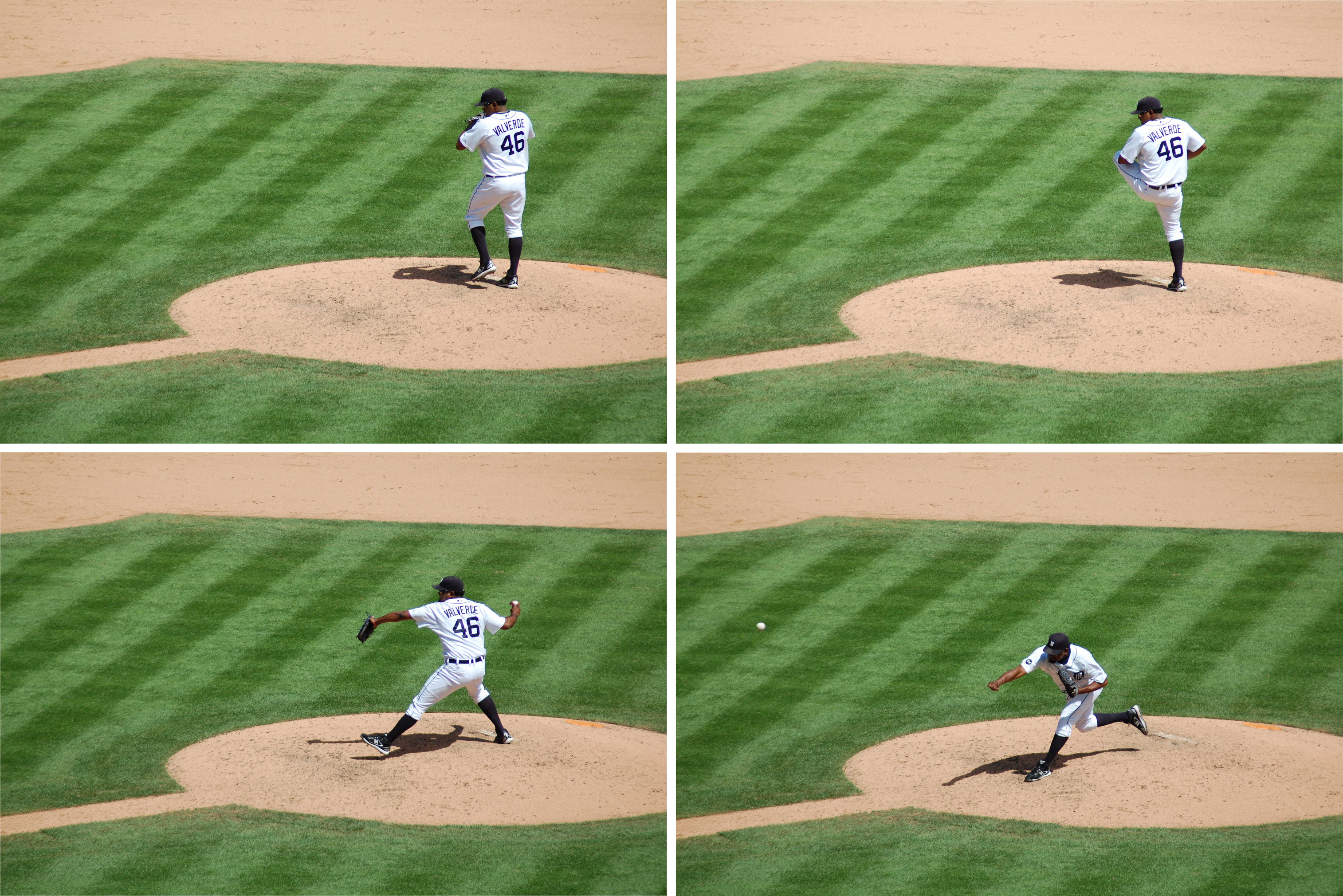 The pitching motion of Detroit Tigers baseball player José Valverde. Photo collage from a July 2010 game against the Toronto Blue Jays.